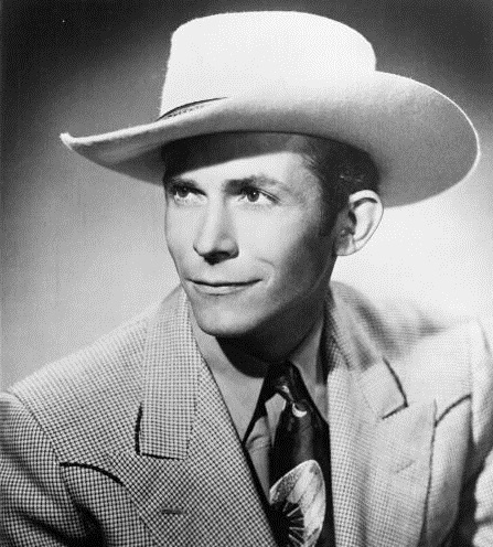 Publicity portrait of Country & Western singer-songwriter Hank Williams for MGM Records.